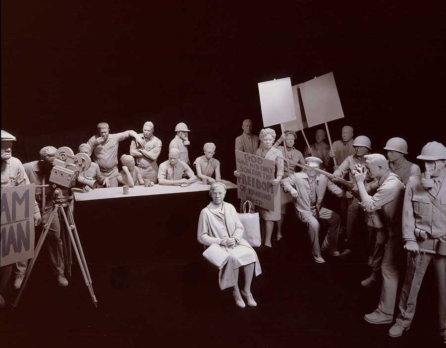 Figures representing the history of the Civil Rights Movement from 1955 through 1968, with Rosa Parks at the center. The National Civil Rights Museum, Memphis, TN (1991). Photo (c) Elliot Schwartz for StudioEIS.